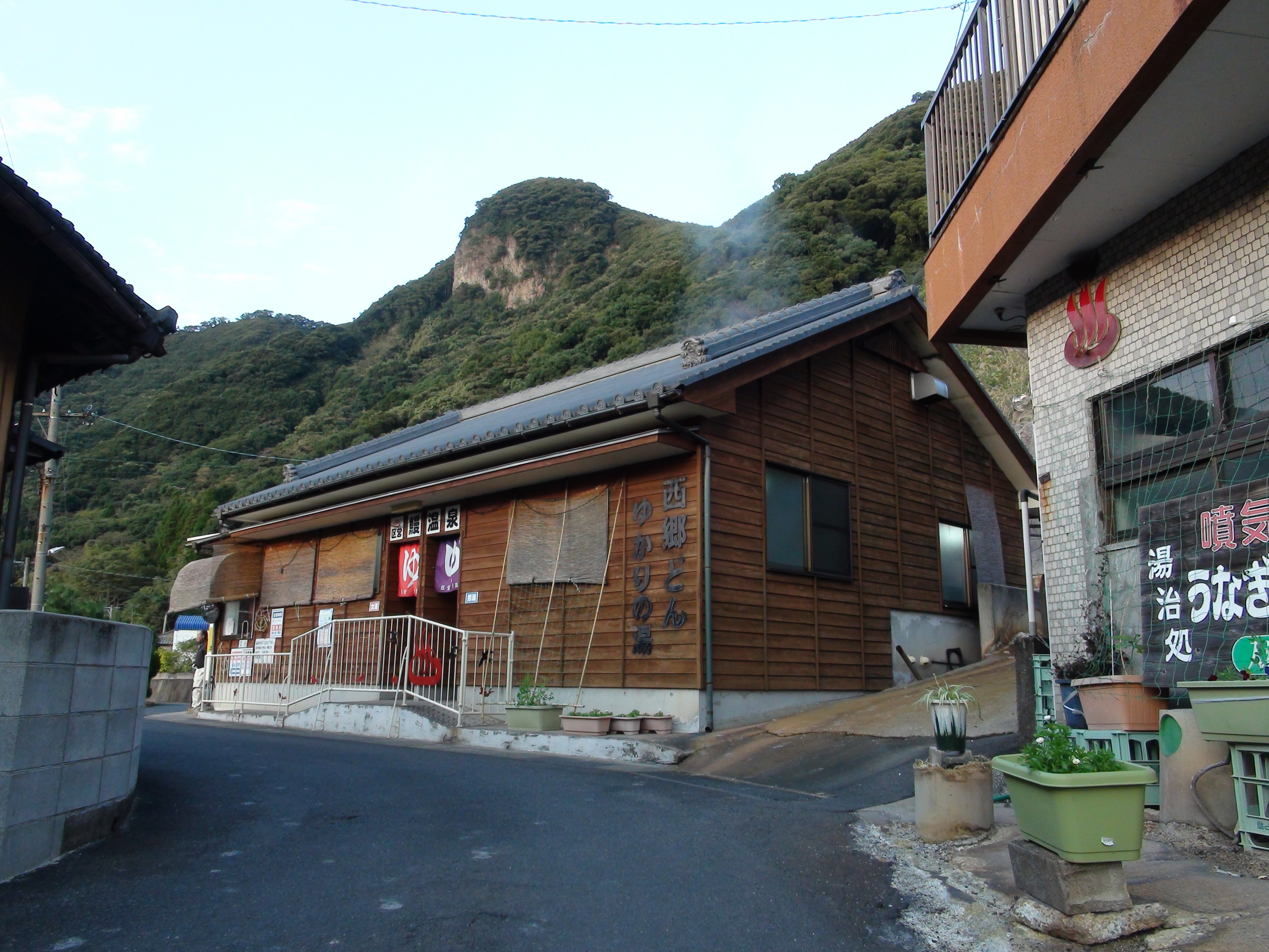 Unagi Onsen Ibusuki, Kagoshima